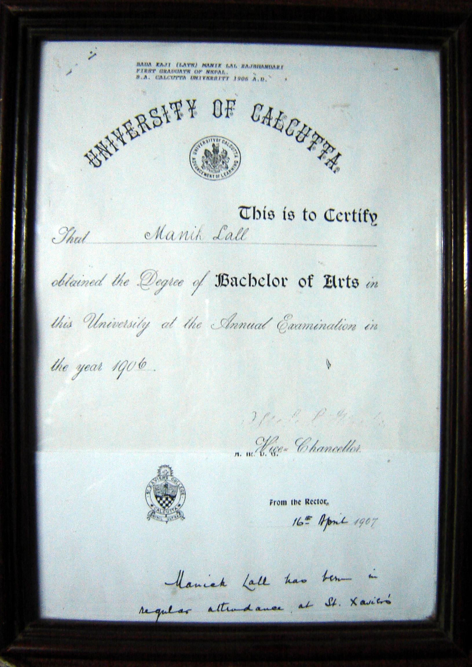 Bada Kaji Manik Lal Rajbhandari, the first Graduate of Nepal, B.A. Calcutta University 1906 A.D.